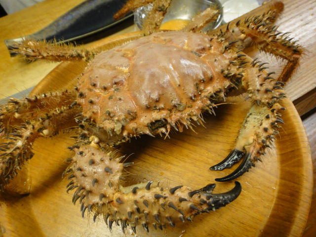 This Hypothalassia armata was landed in Saiki-shi, Oita in Japan.